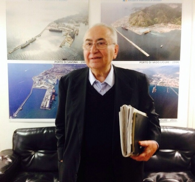 Giovanni Gambardella in 2015